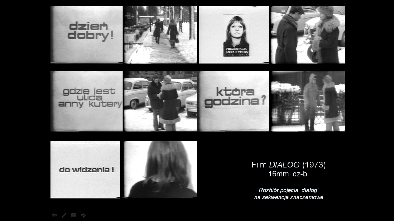 Fragments of an art video created by Anna Kutera in 1973.